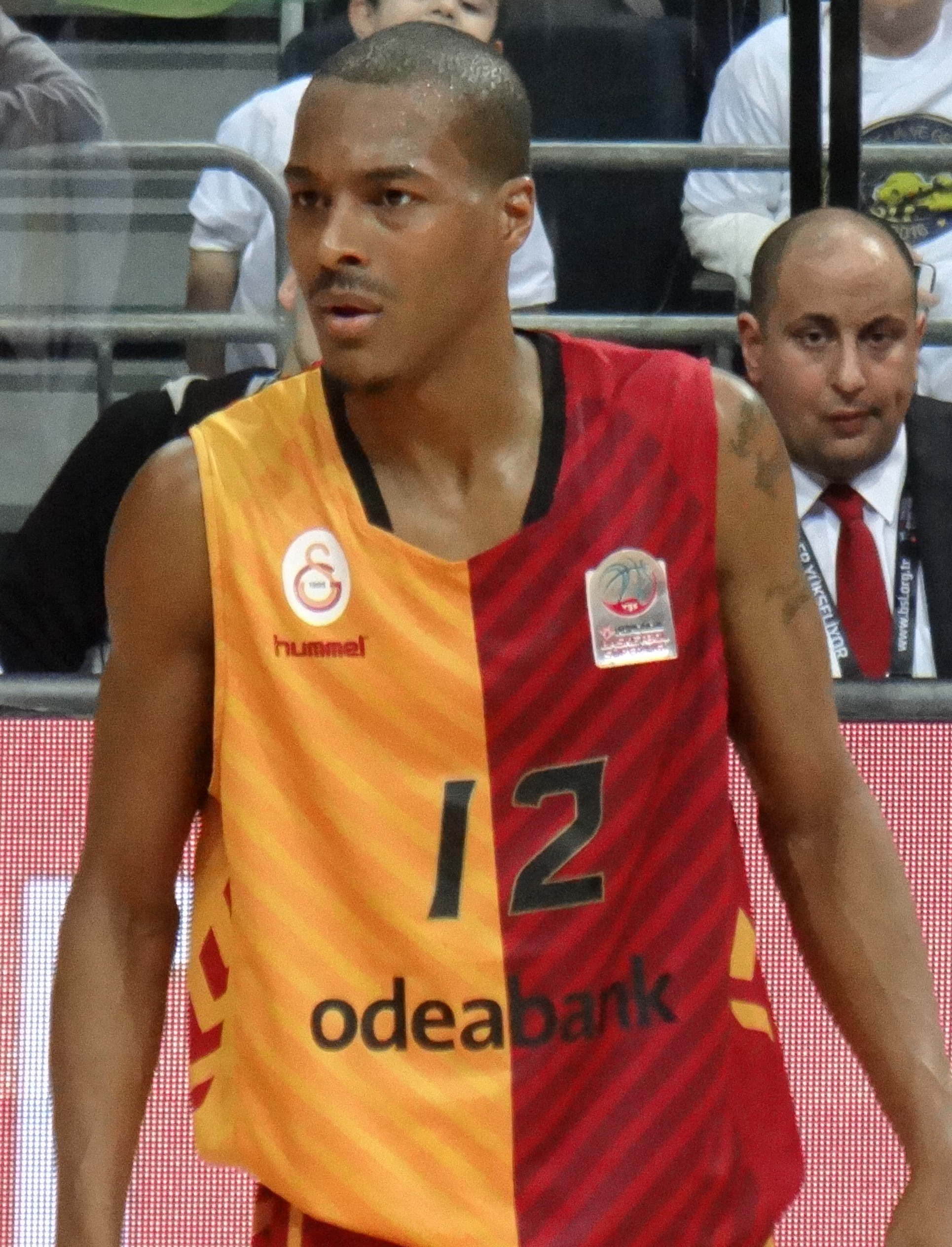 Alex Renfroe Fenerbahçe Men's Basketball vs Galatasaray Men's Basketball TSL 20180304 (2)